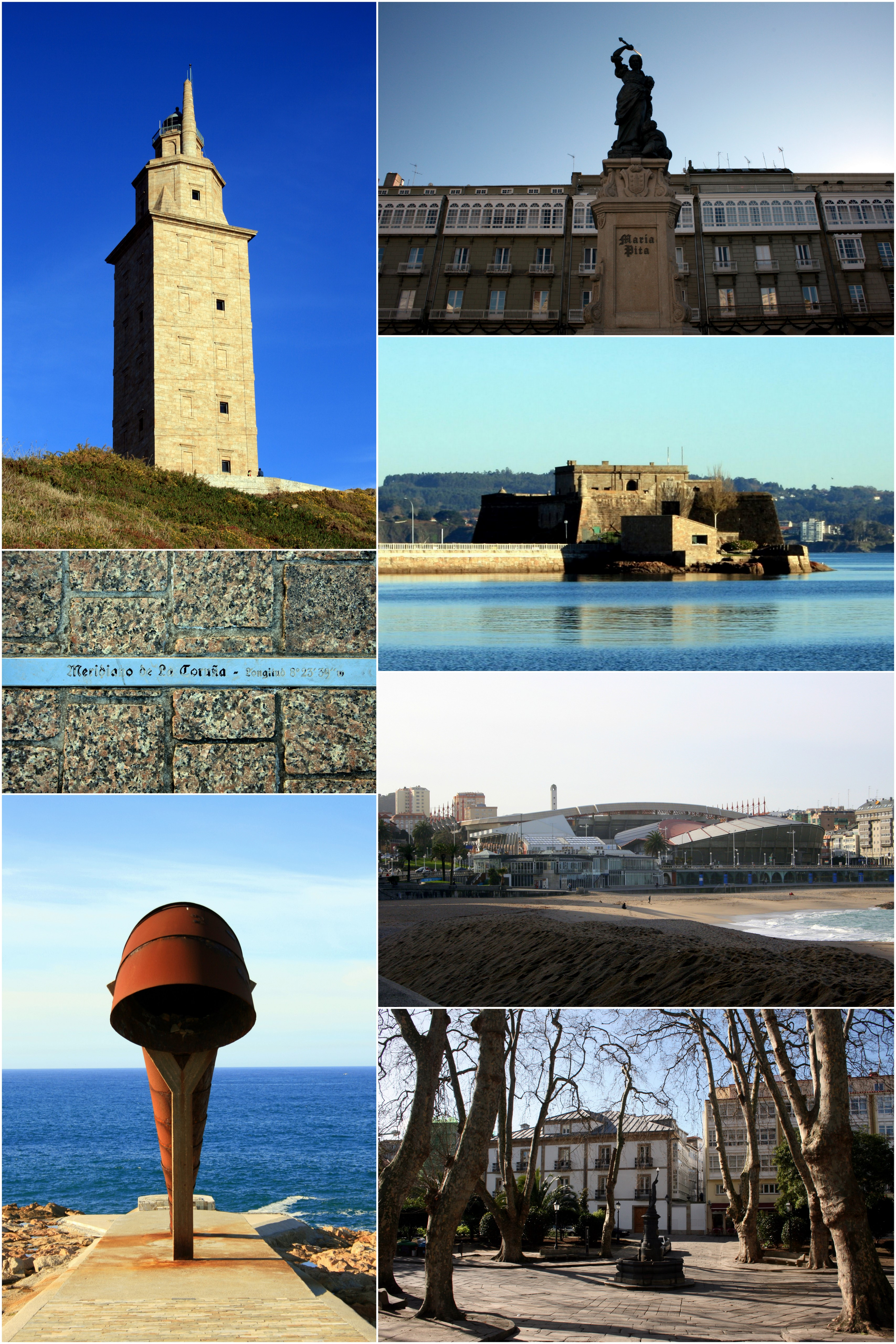 Collage made with photos that I take of the city of A Coruña (Galicia, Spain).